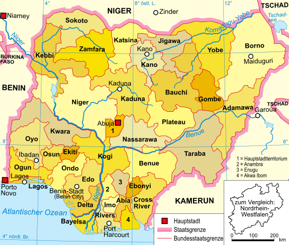 Political map of Nigeria (German)